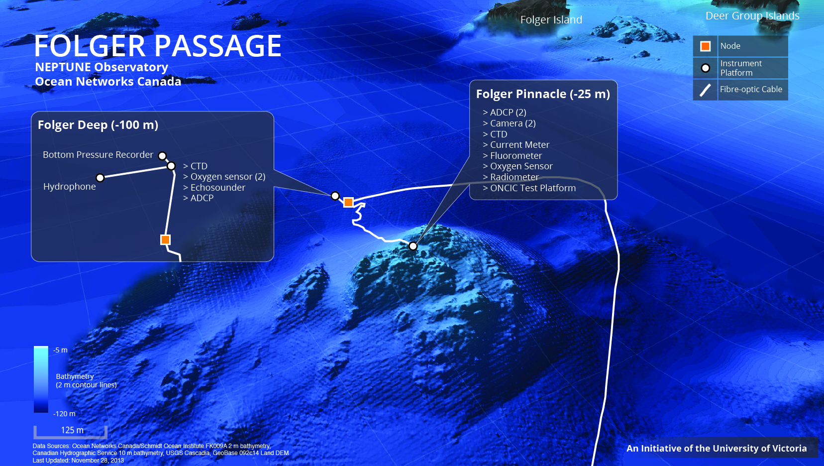 2013 map of Ocean Networks Canada installations at Folger Passage in Barkley Sound, on the west coast of Vancouver Island. This site is part of the NEPTUNE observatory in the northeast Pacific.